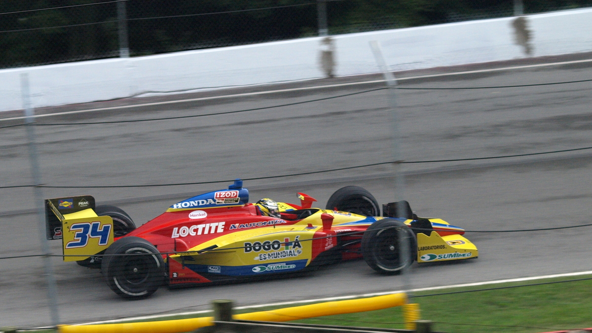 Sebastian Saavedra